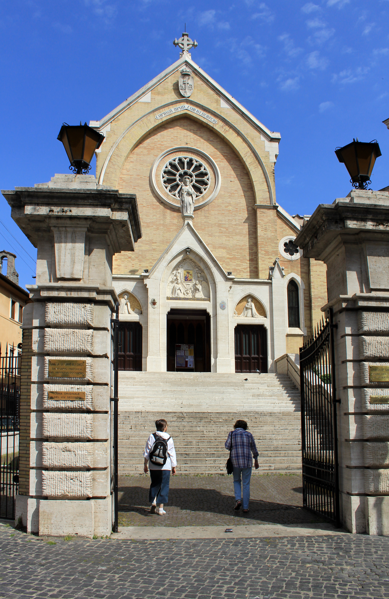 Church of St. Alphonsus Liguori, Rome, Italy